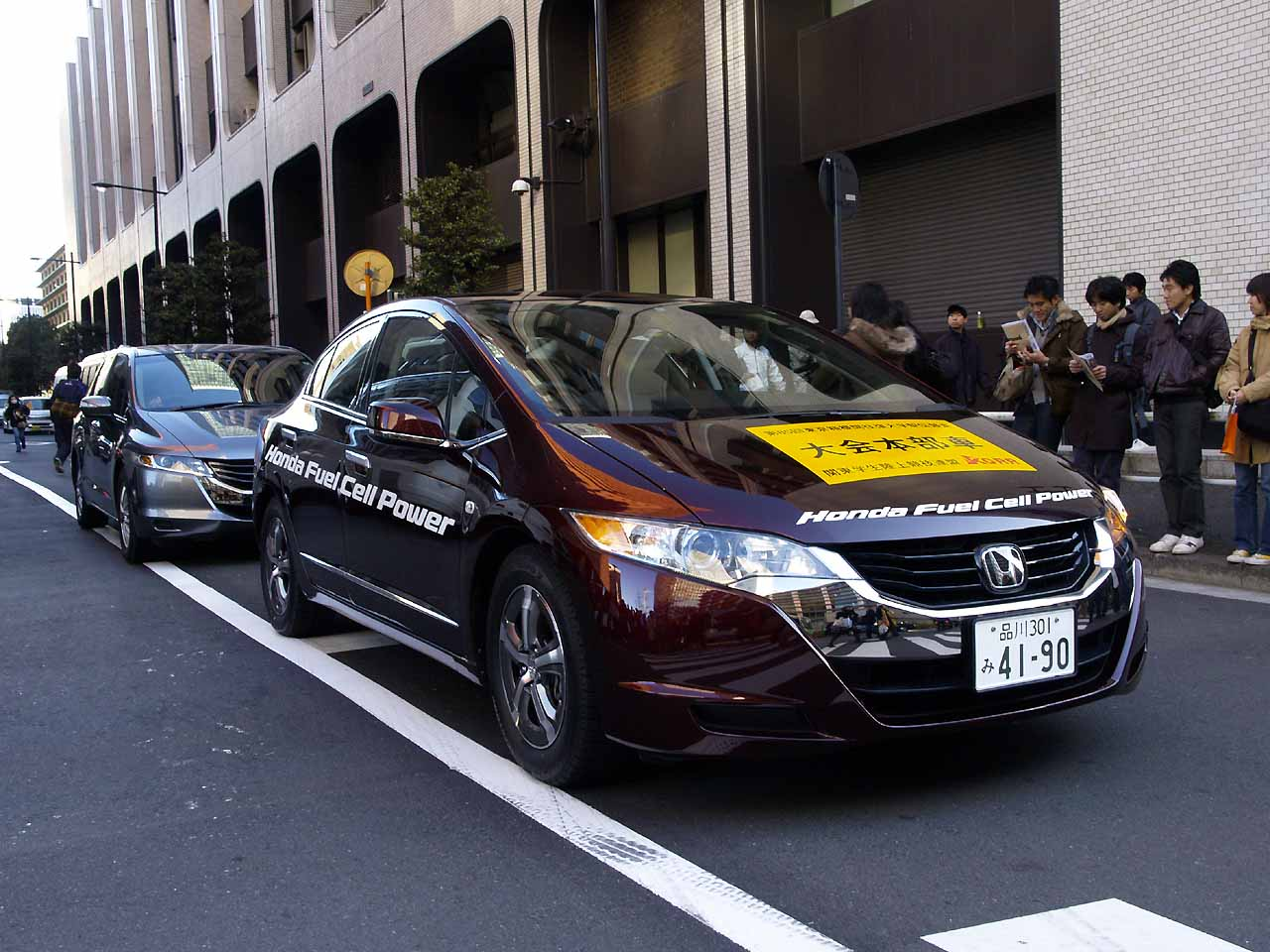 Honda FCX Clarity arrived at Otemachi, Tokyo, operated as headquarter car for Tokyo-Hakone collegiate ekiden 2009 and 2010. License plate: TKS301 MI4190